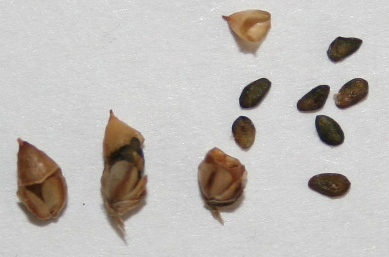 Plantago major: fruit (capsule)